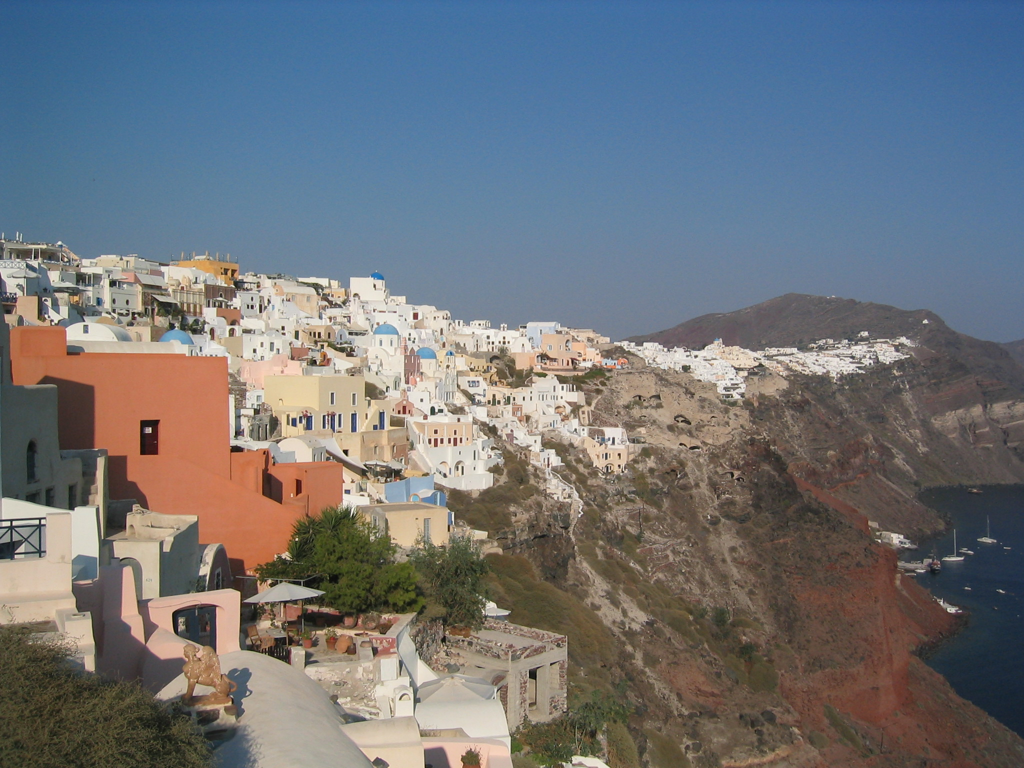 Coast of Oia, on the island of Thera, (Santorini, Greece)